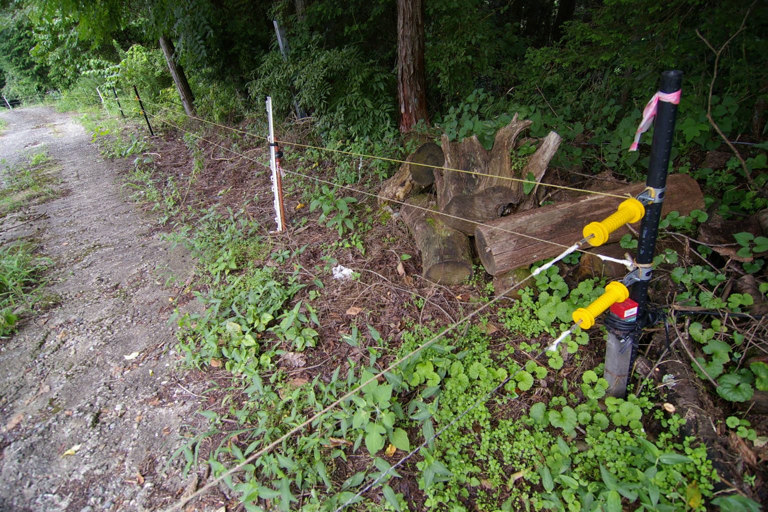 Electric Fence for Wild Animals (Agi, Nakatsugawa City, Gifu Pref., Japan)